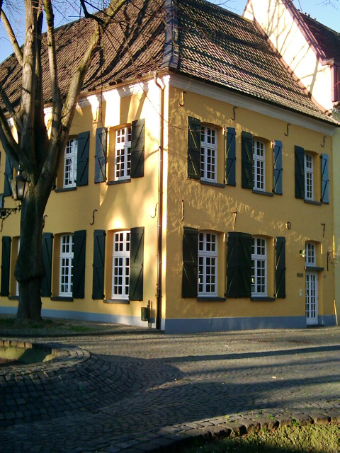 Wachtendonk-Old Monastry 'Thal Josaphat'